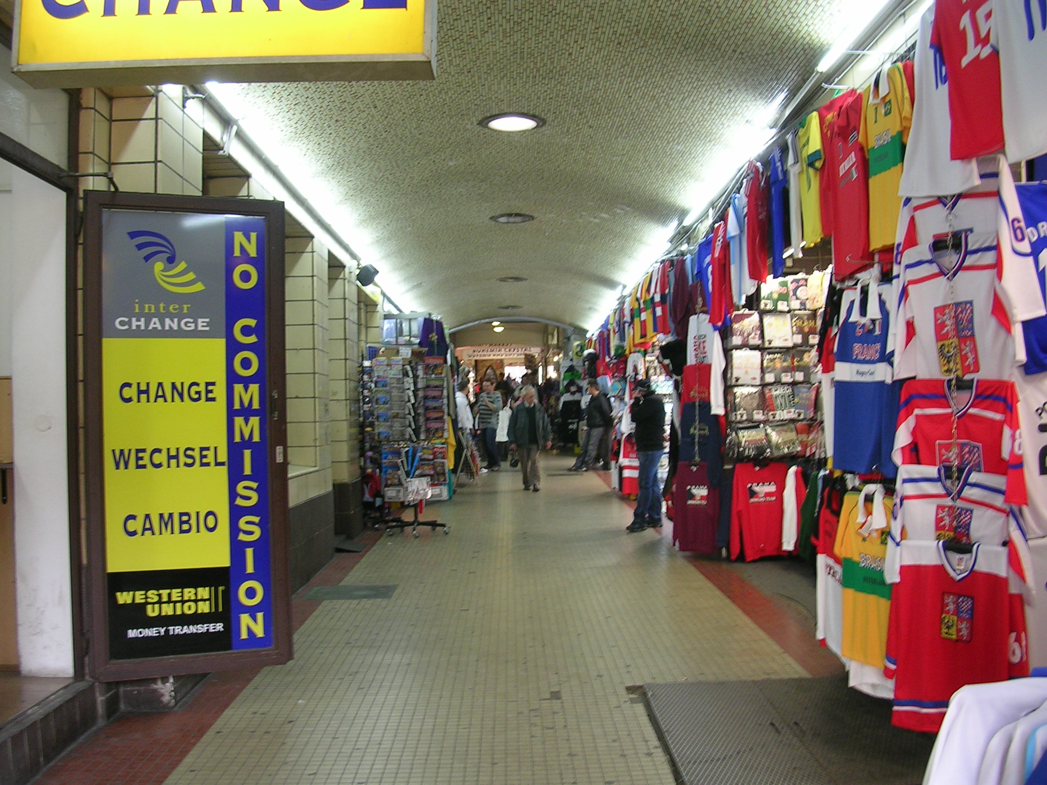 Old Town, Prague. Passage near Charles Bridge - OpenStreetMap (Info)